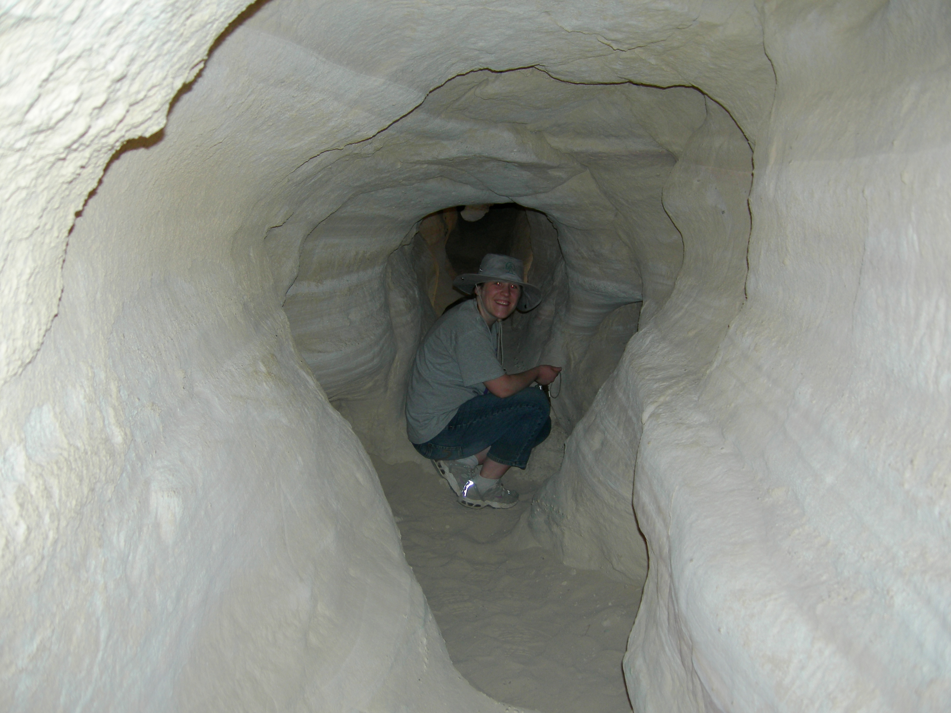 Chalcolithic mine in Timna Park, Negev Desert, Israel